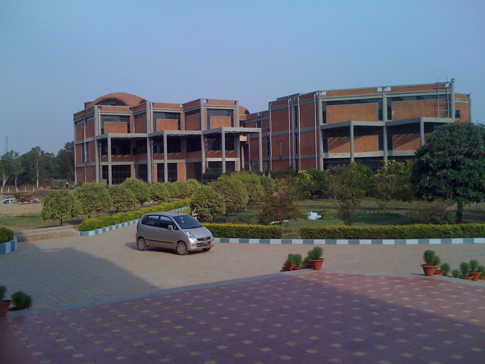 Photograph of ABIT